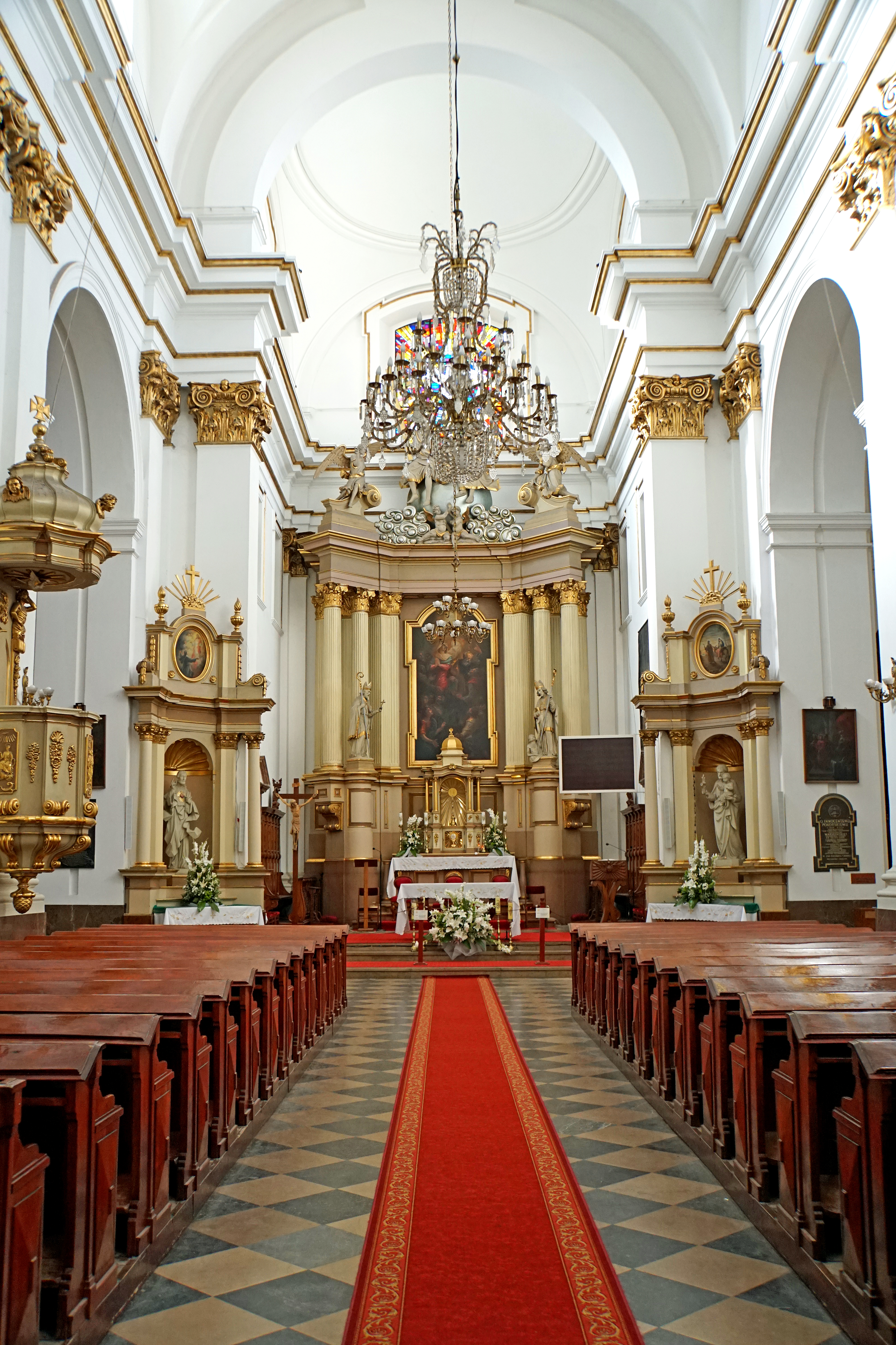 PLEASE, NO invitations or self promotions, THEY WILL BE DELETED. My photos are FREE to use, just give me credit and it would be nice if you let me know, thanks. Church of the Holy Spirit was built in 1717 on the site of a previous wooden church which was destroyed during the Swedish War. In 1944, during the Warsaw Uprising, the church was almost completely destroyed by the German Army; the interior of the church and vaulting burnt down, with only the main altar surviving. The church was rebuilt in 1956 in the same form as it was before World War II.